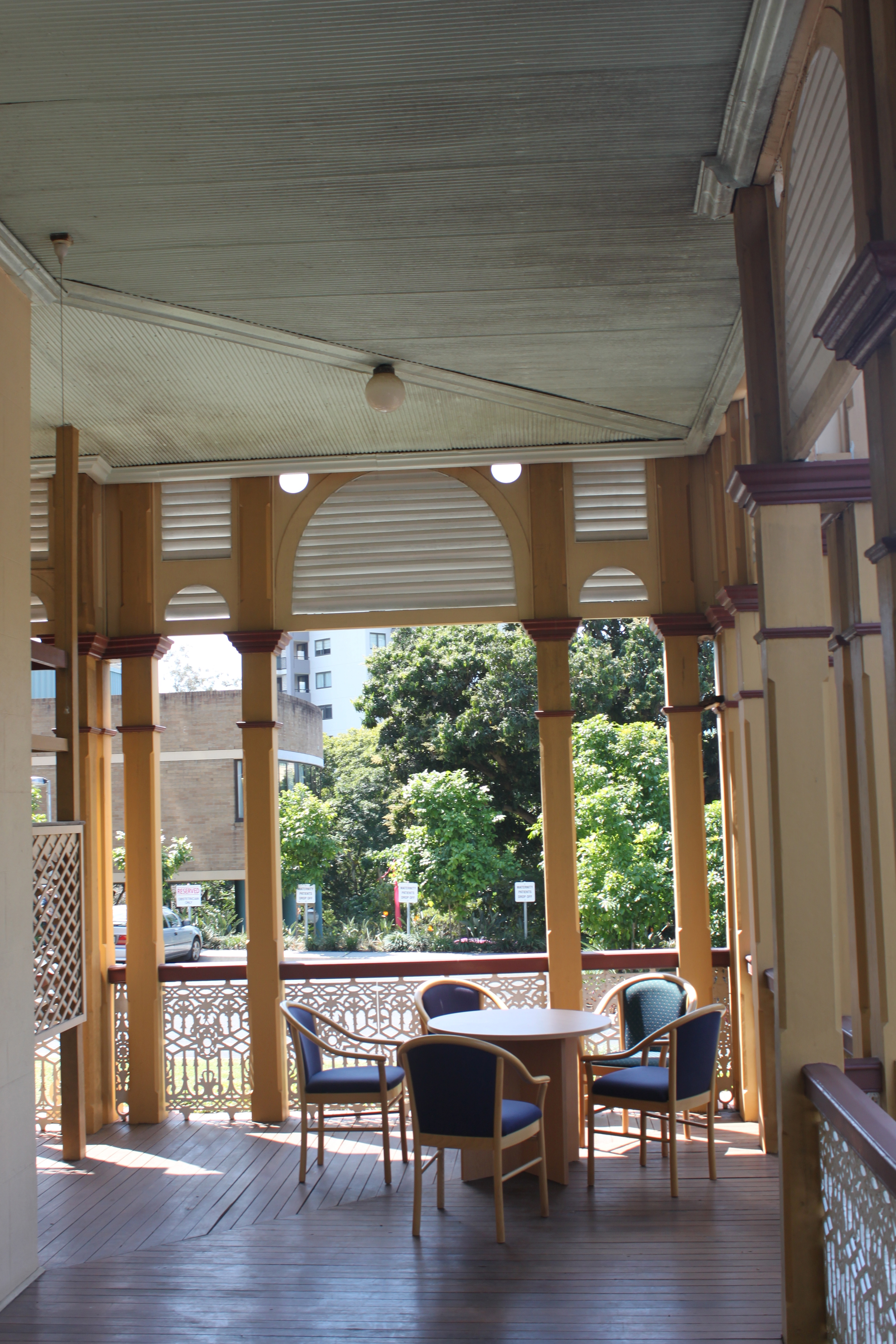 Richard Gailey's work